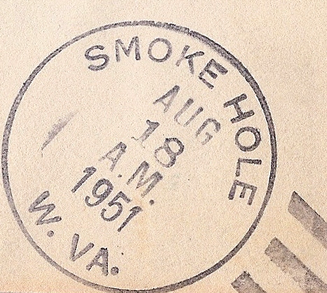 Scanned copy of a Postmark from Smoke Hole, West Virginia